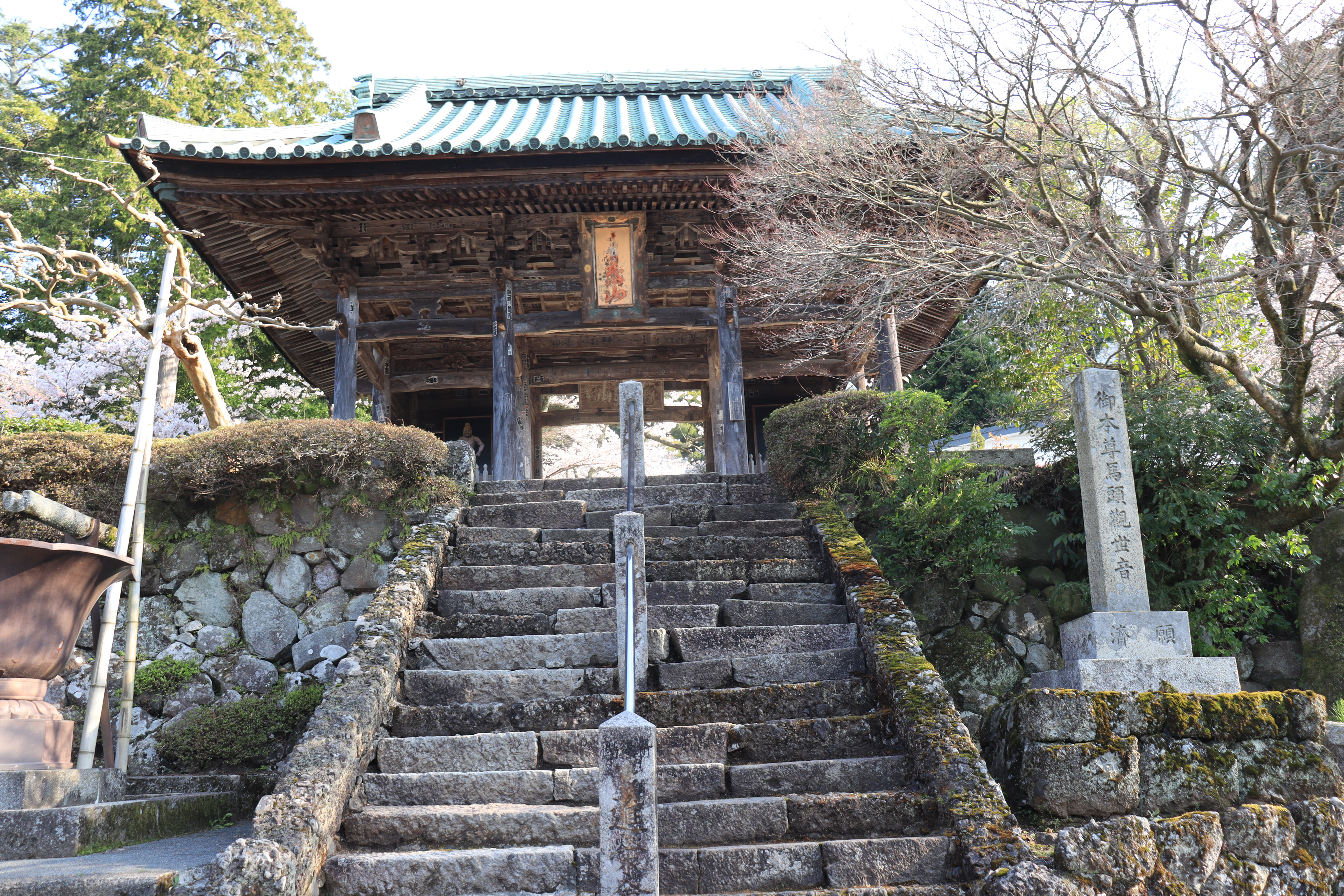 Niomon of Matsunoo-dera in Maizuru, Kyoto Prefecture, Japan.